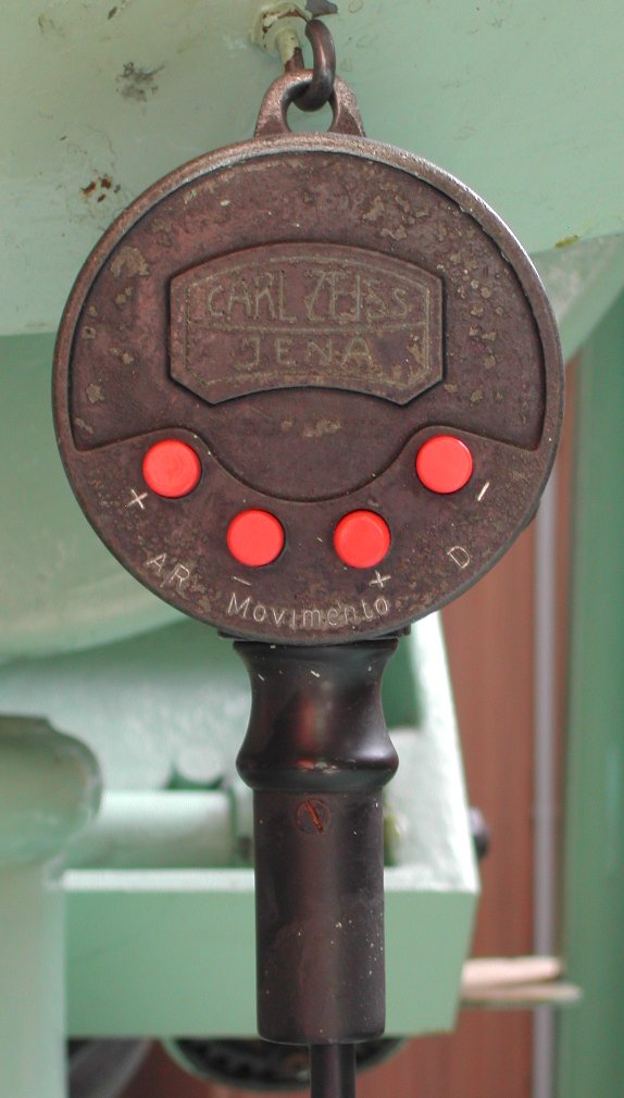 1 meter Zeiss telescope at Merate Astronomical Observatory, Merate (LC), Italy. Slew keypad.